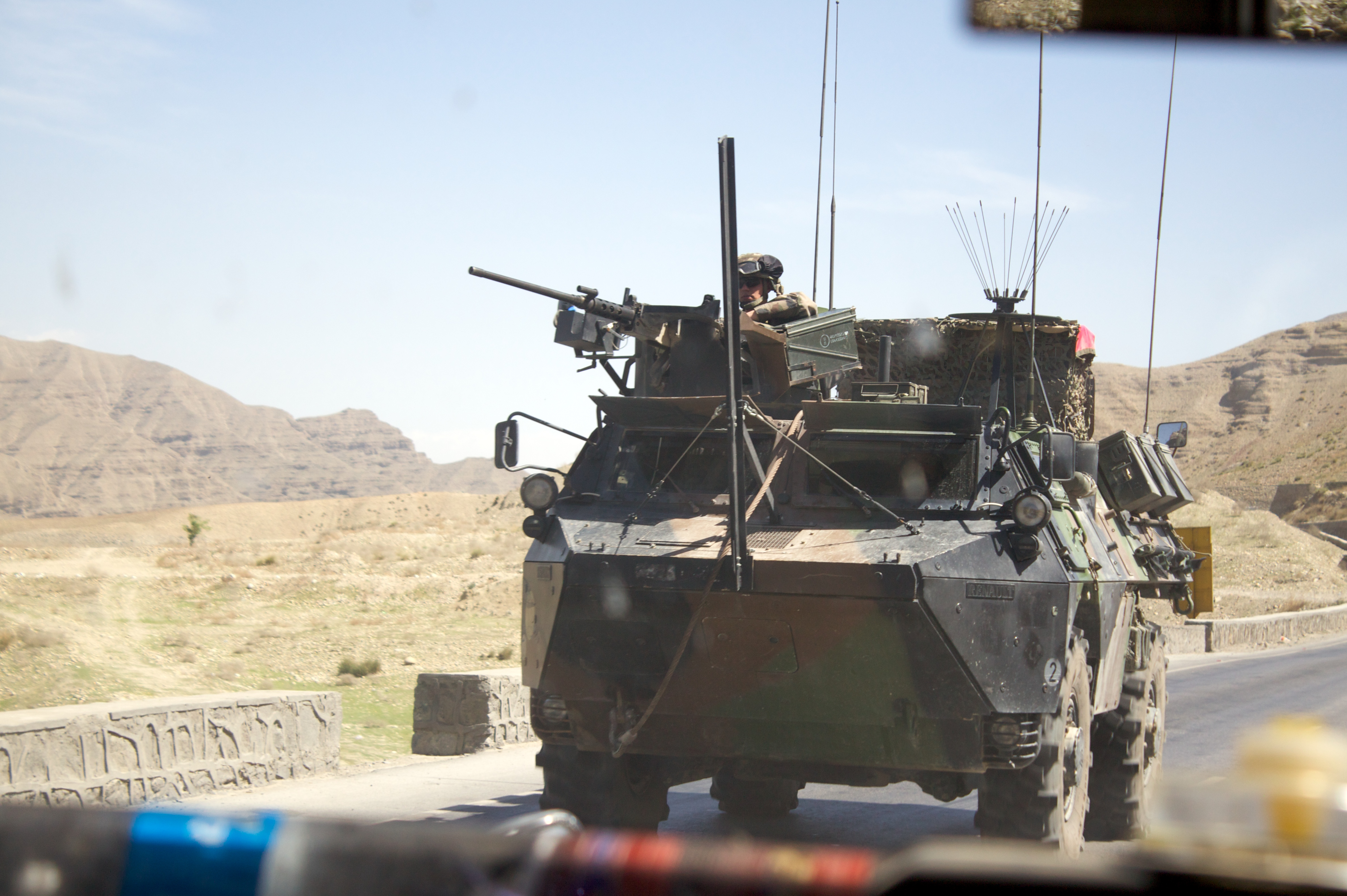 The following is the author's description of the photograph quoted directly from the photograph's Flickr page. "French troops on patrol. At least this time they aren't pointing the gun at me. These are photos on the road from Kabul to Jalalabad (sorry Mom). Notes: I've geotagged the photos, so check out the location on the map (lower left) These were taken at-speed, so I'm not entirely happy with the focus in all of them, so my apologies "